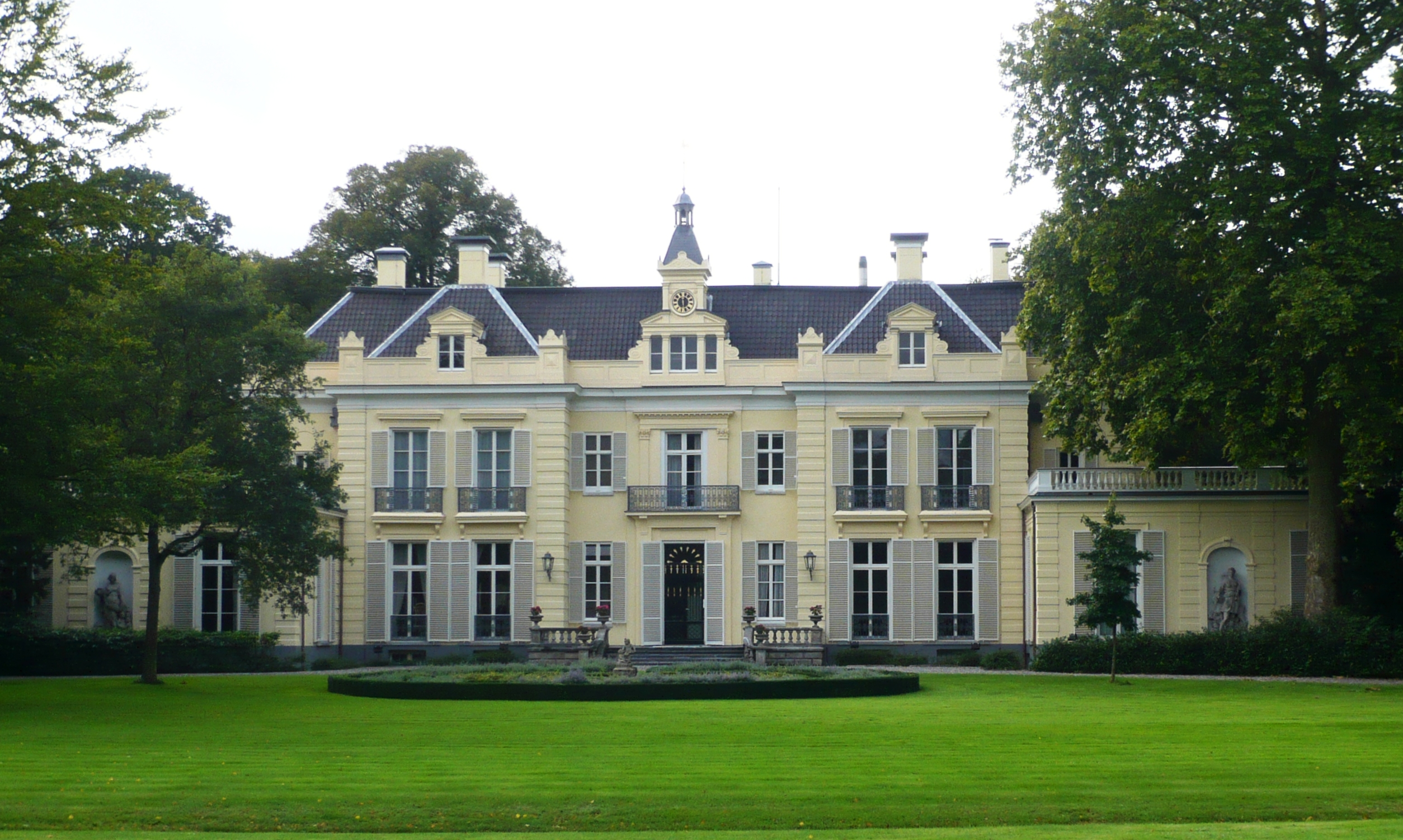 Hartekamp after restoration in 2011